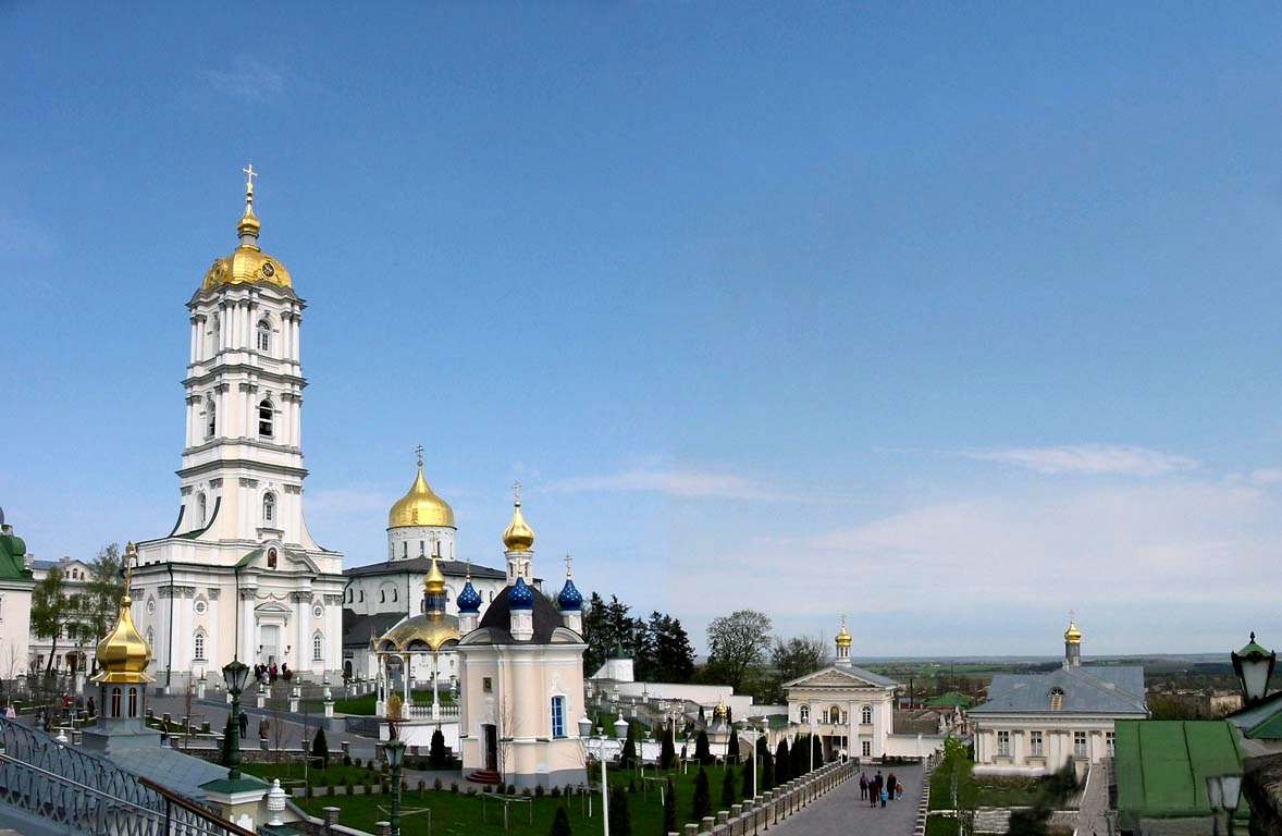 Panorama of the cloister